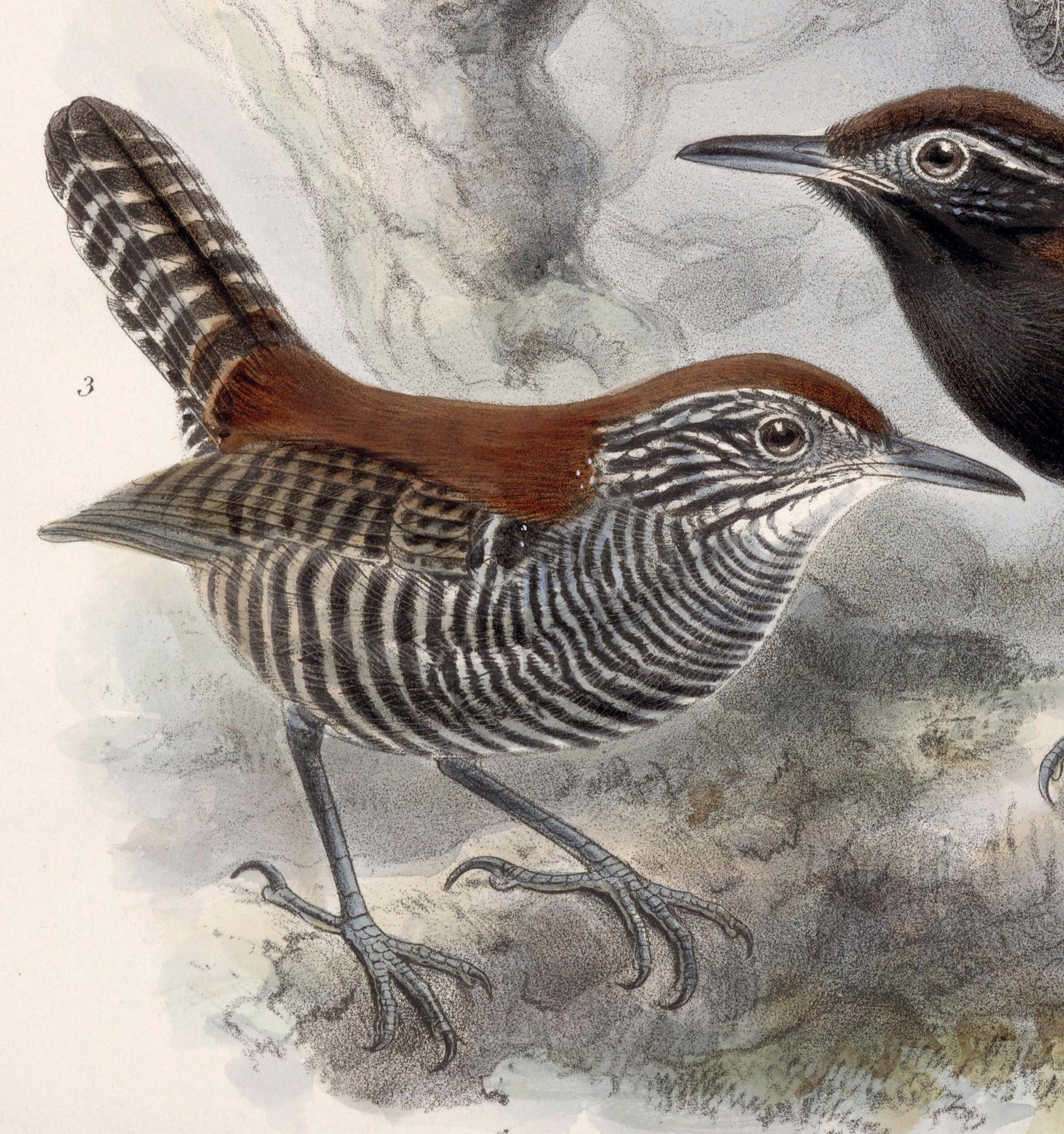 « Thryophilus semibadius » = Cantorchilus semibadius (Riverside Wren)